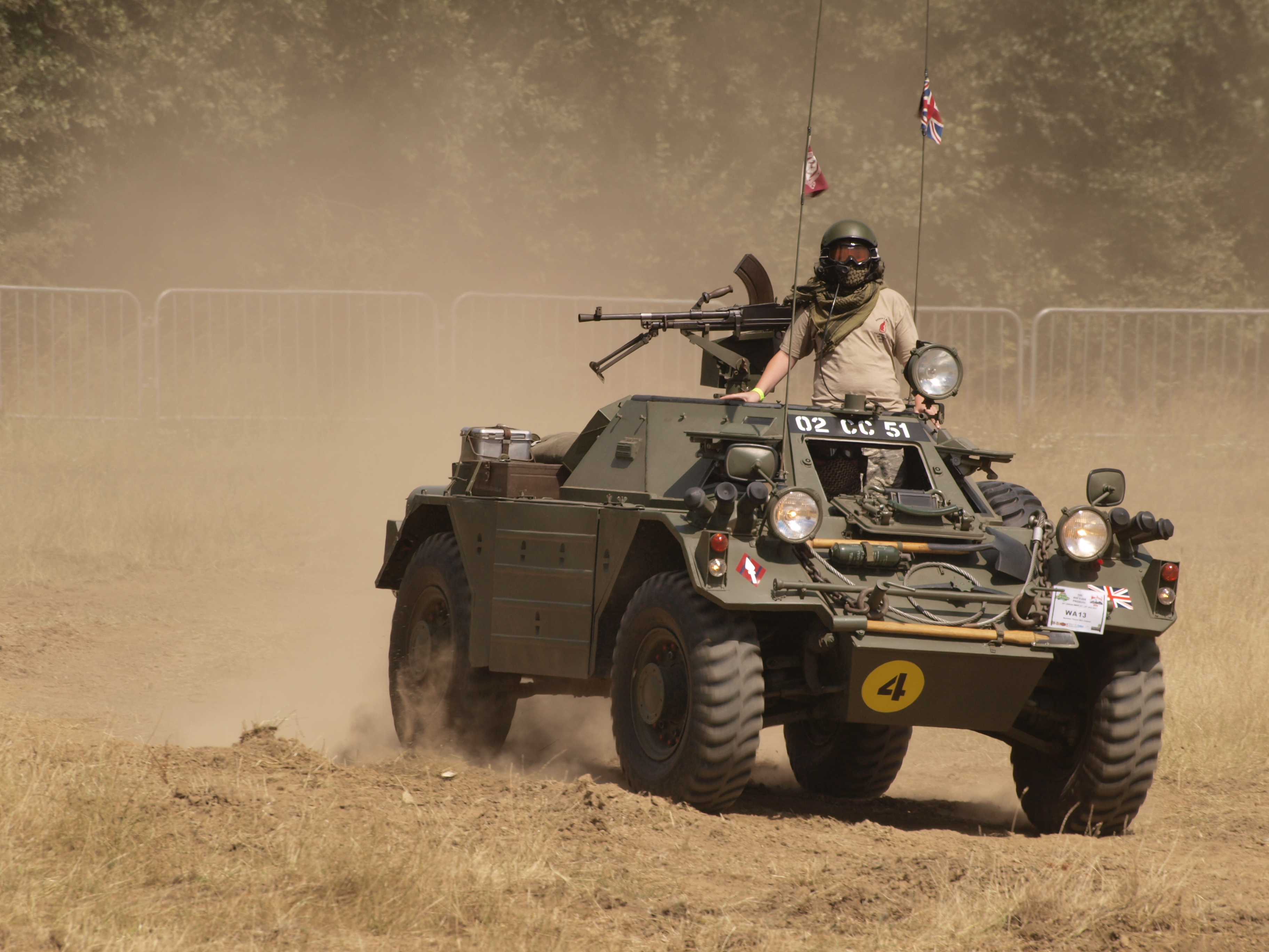 Daimler Ferret Mk1 Liaison (1959) owned by Clive Garton